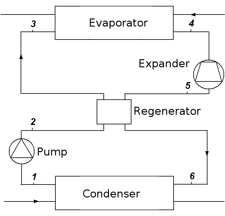 Sketch of an Organic Rankine Cycle with regeneration